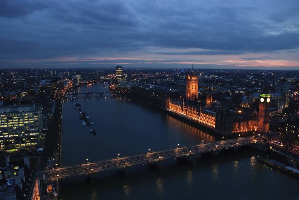 Palace of Westminster seen at night from London Eye flight